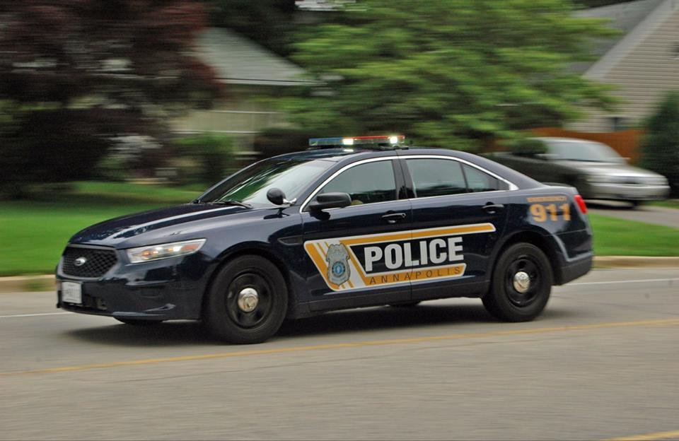 Annapolis Police car responding